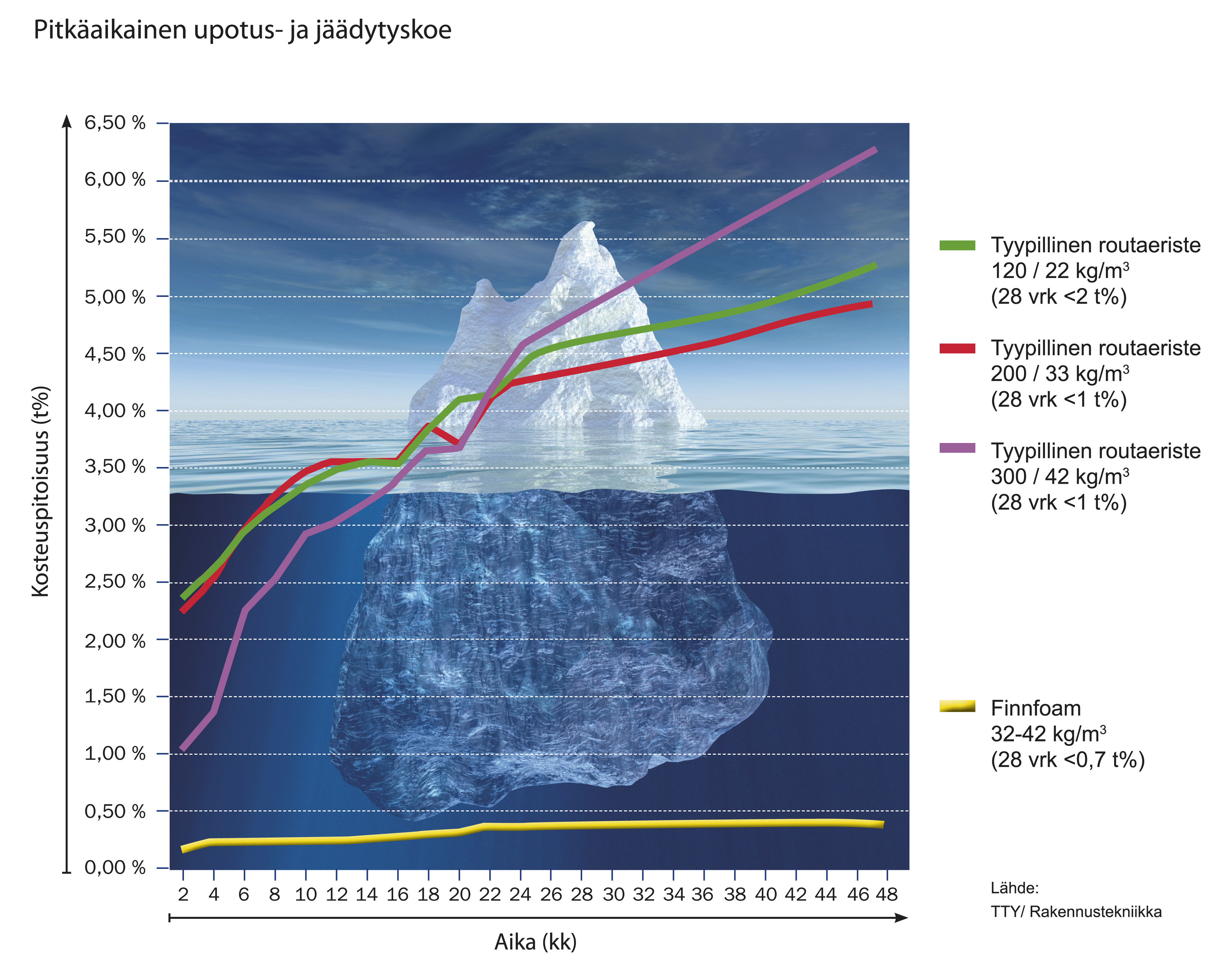 Long time immersion and freezing tesst of ground frost insulation materials; VTT, Finland.